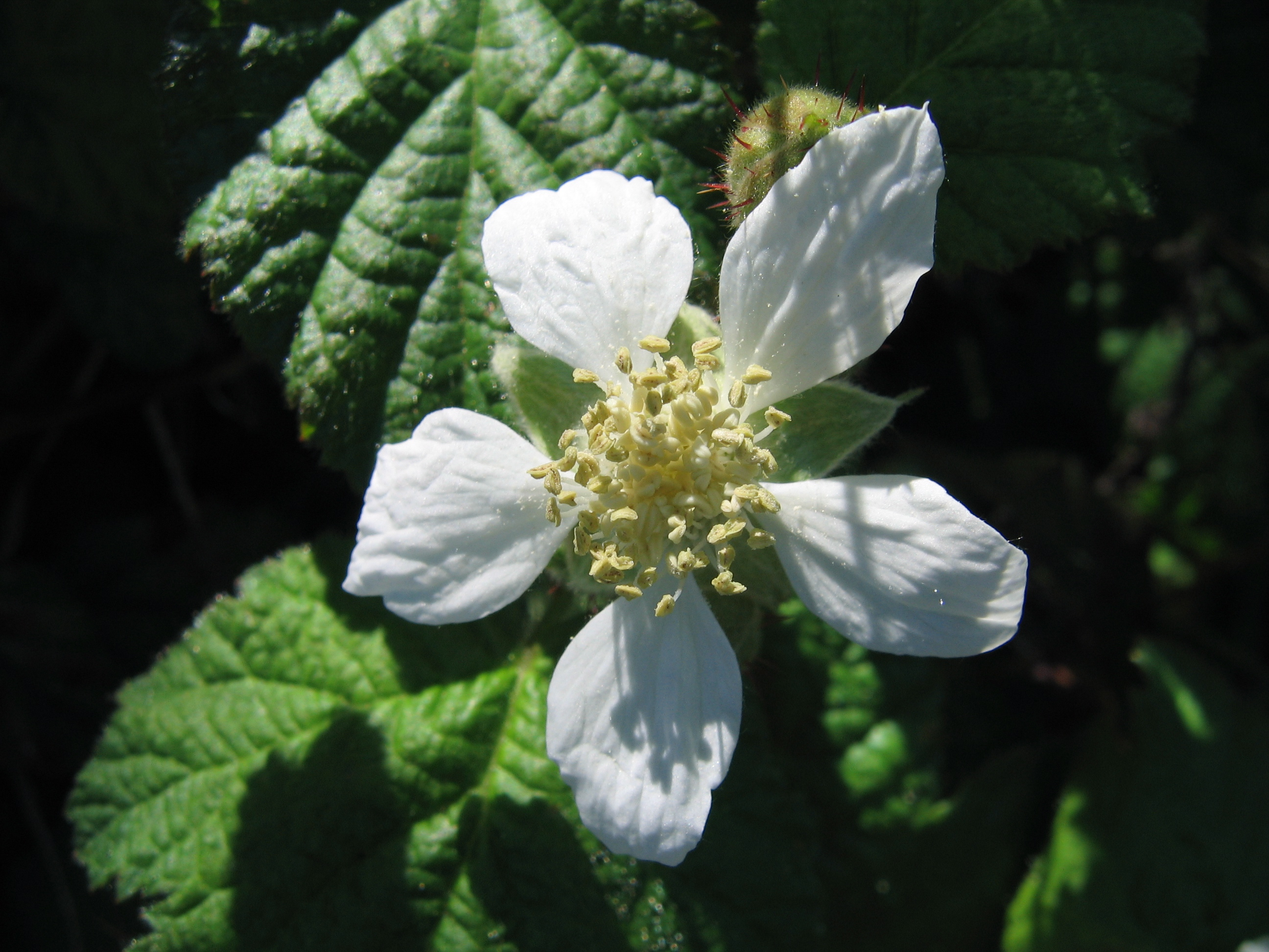 Rubus ursinus — California blackberry, flower.